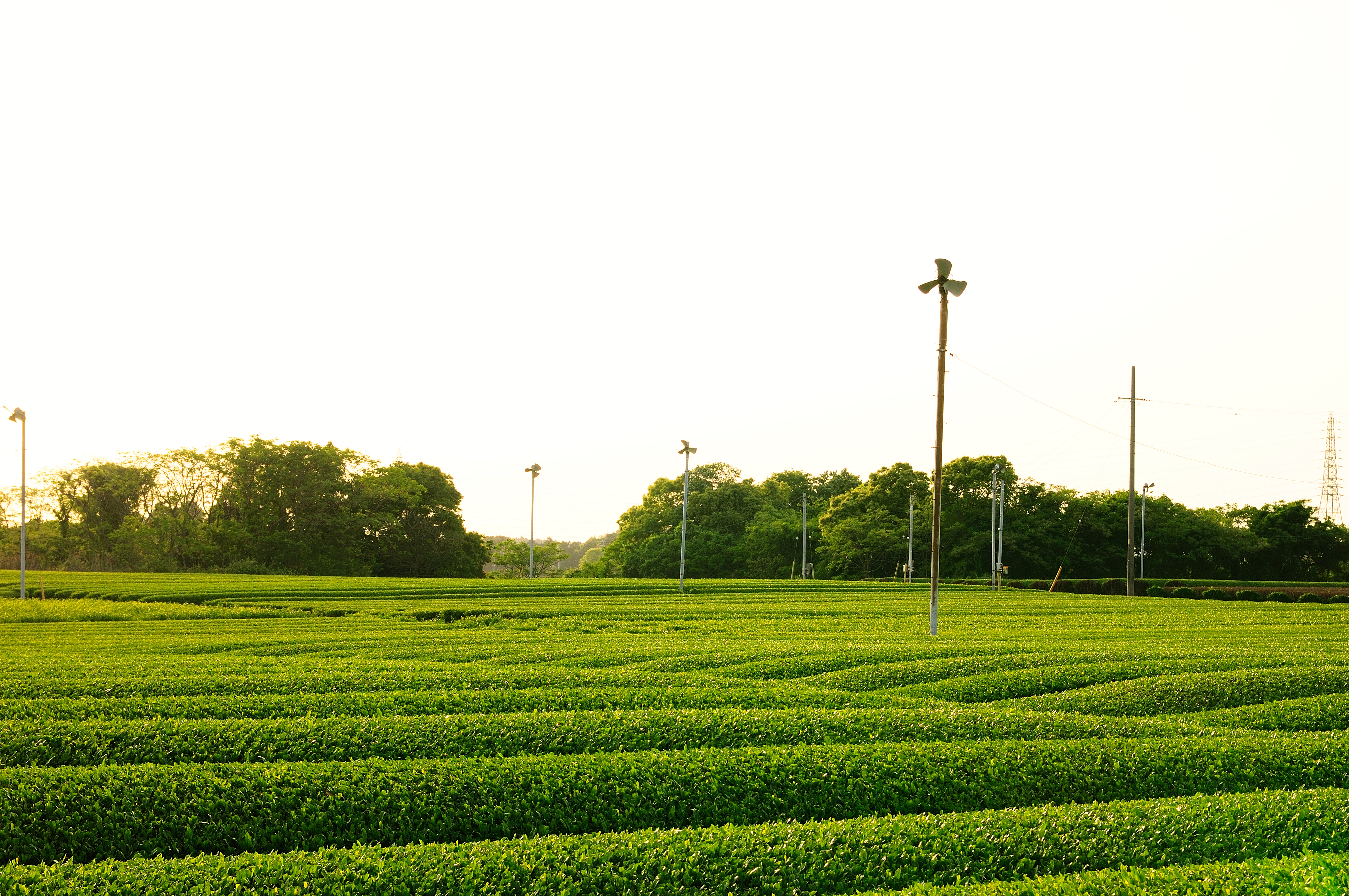 Tea plantation in Shizuoka, Japan.